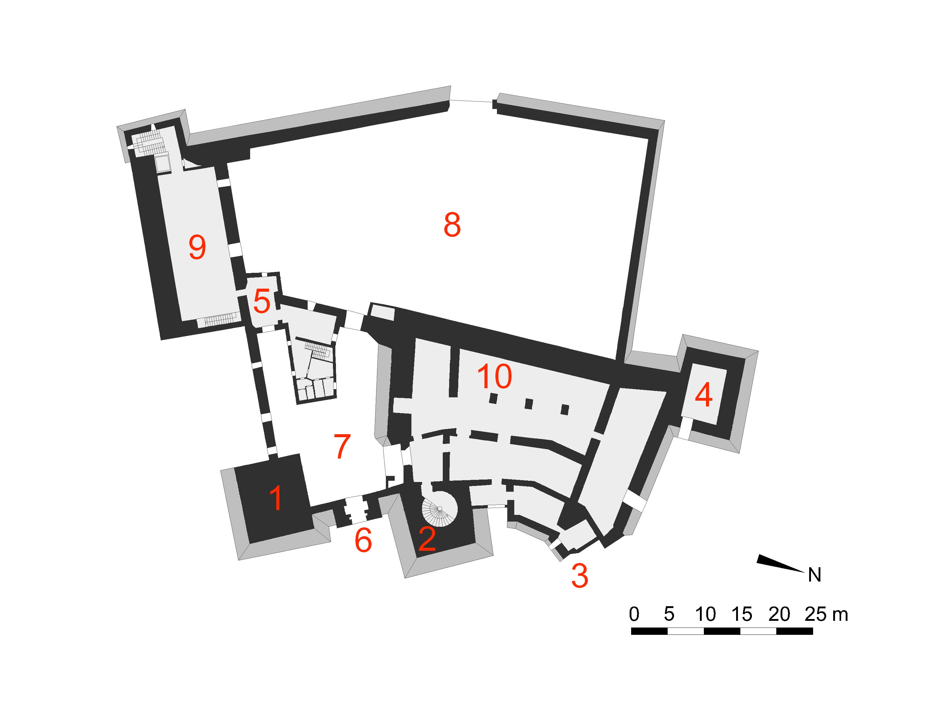 Plan of the ground floor of Castel Sismondo, Rimini. Based on: Maurizio Biordi, Pier Luigi Foschi, "Museo delle culture extraeuropee Dinz Rialto", Provincia di Rimini, Rimini 1995, p.12.